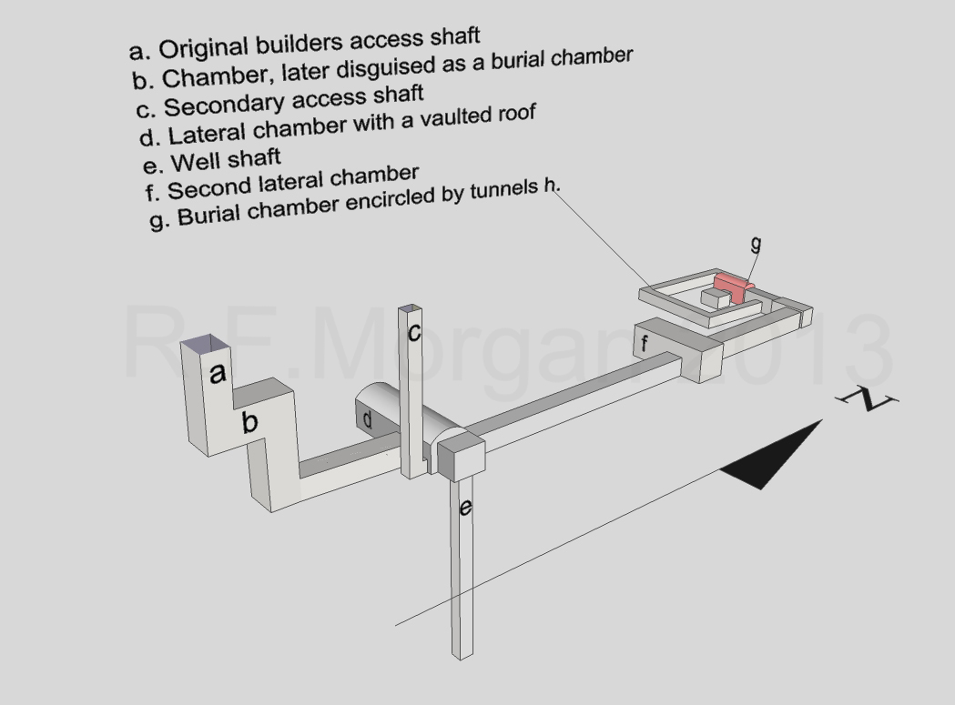 annotated images of the burial chambers of Senusret II